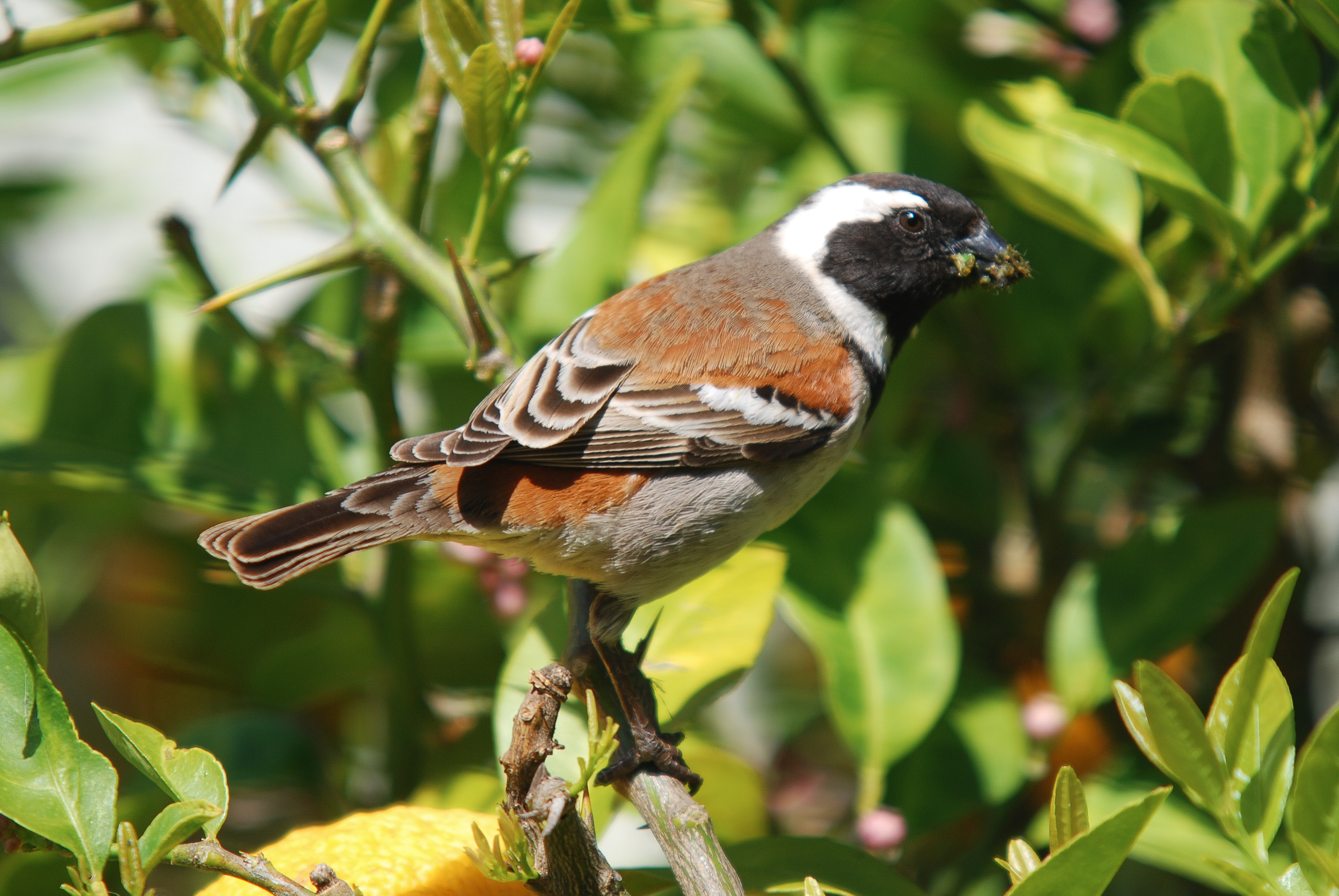 Male Cape Sparrow visiting its nest to feed its chick.